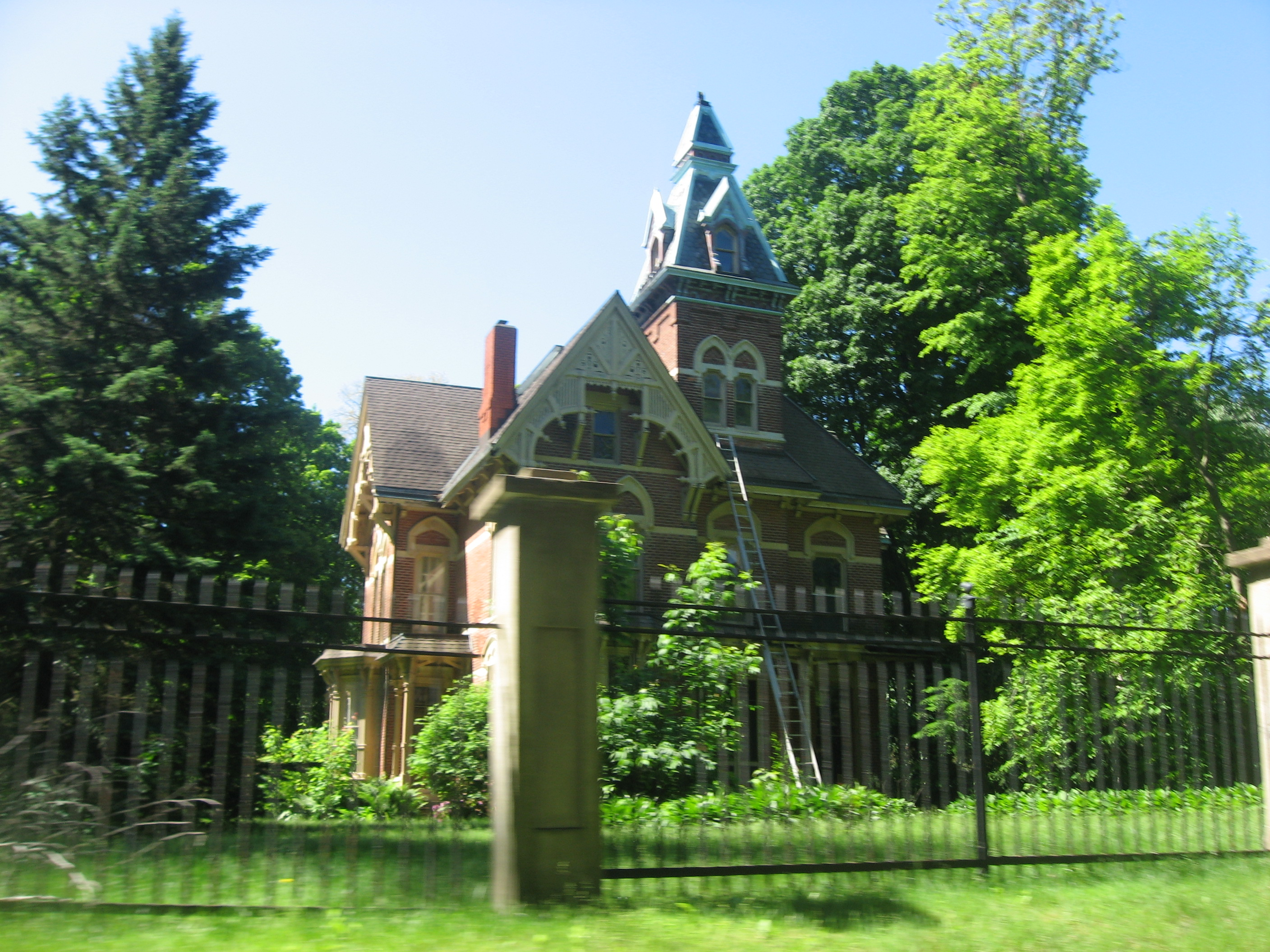 Front of the William Orr House, located at 4076 Small Road west of LaPorte in Center Township, LaPorte County, Indiana, United States. Built in 1875, it is listed on the National Register of Historic Places.